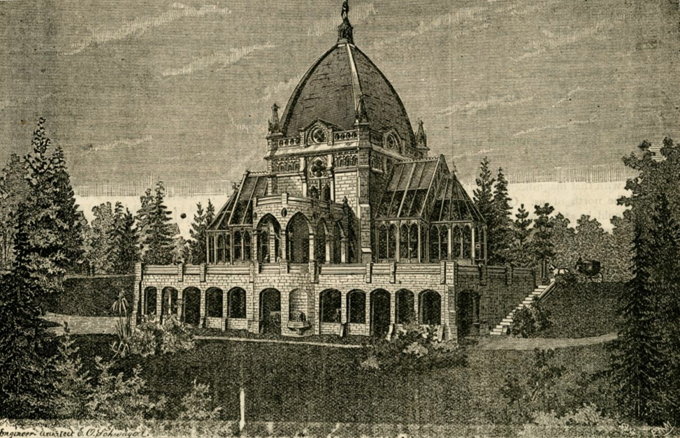 A rendering of the proposed design for a chapel and receiving vault at the River View Cemetery in Portland, Oregon, by the cemetery's designer, E. O. Schwagerl. The building itself was never built. First published in West Shore Magazine, May 1881.